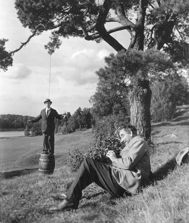 A scene from the film Pengar – en tragikomisk saga with Nils Poppe and Elof Ahrle.